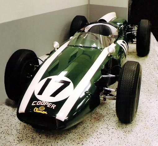 1961 Cooper-Climax (Cooper T51) Indianapolis Motor Speedway, 2003, by Rick Dikeman